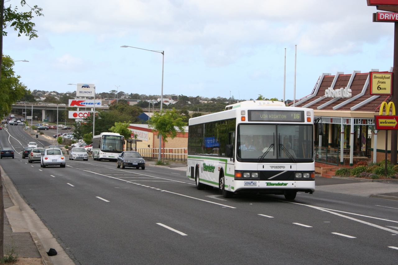 A Volgren "CR221L" bodied Volvo B10BLE (built 2001), owned by Benders Busways on High Street Belmont - Geelong, Victoria, Australia.